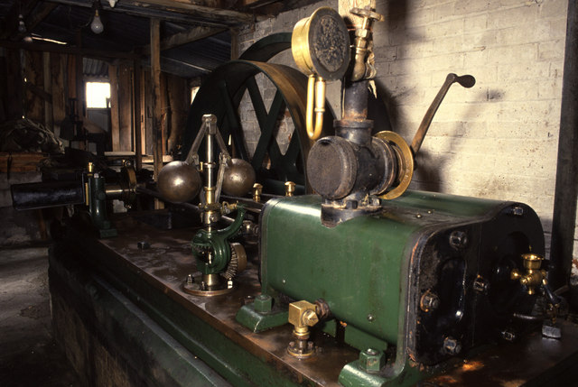 Englefield Estate sawmill, Berkshire: Clayton & Shuttleworth steam engine of 1863, installed on the present site 1900. One of two engines on site. Preserved and workable.